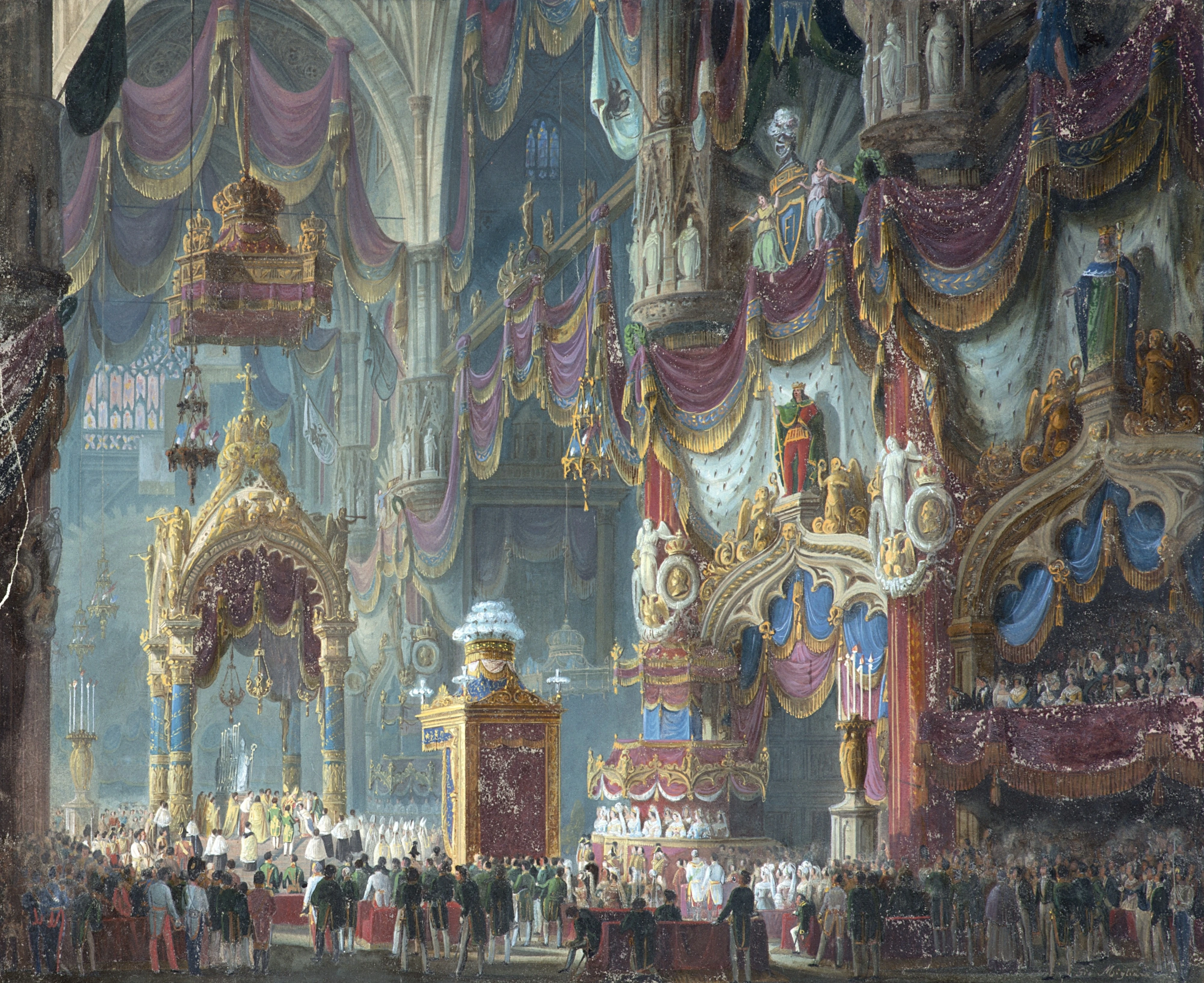 Template:IT